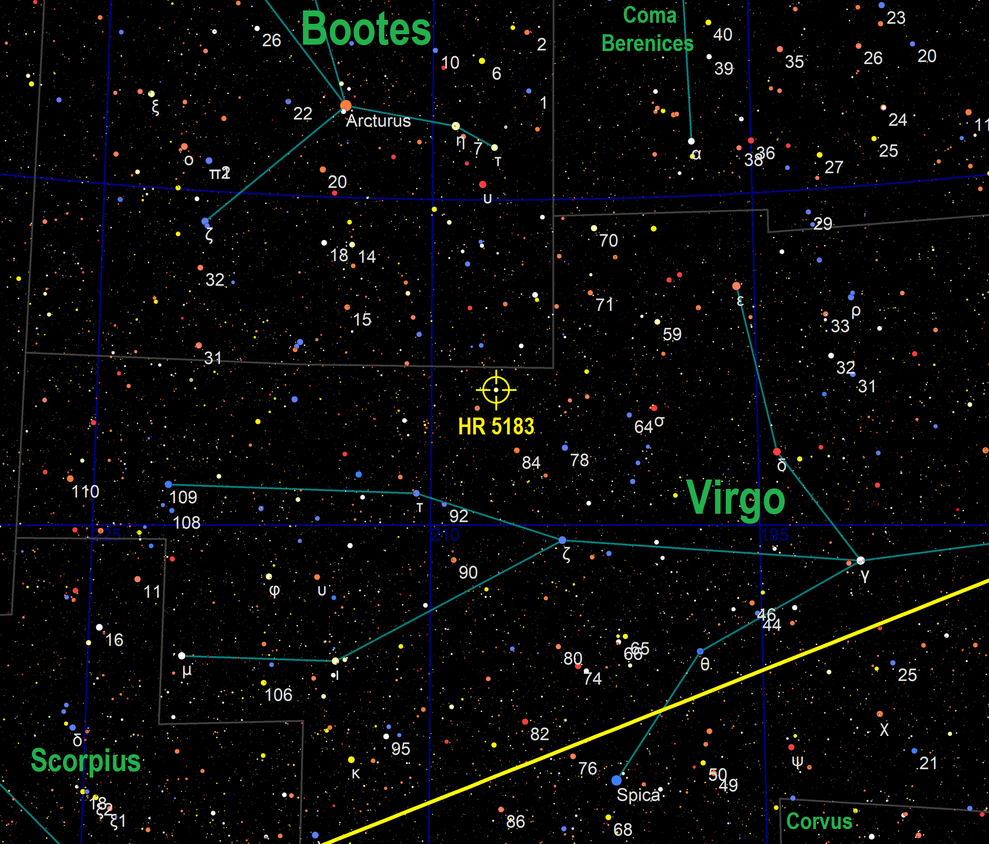 Starmap for HR 5183, HR 5183 b